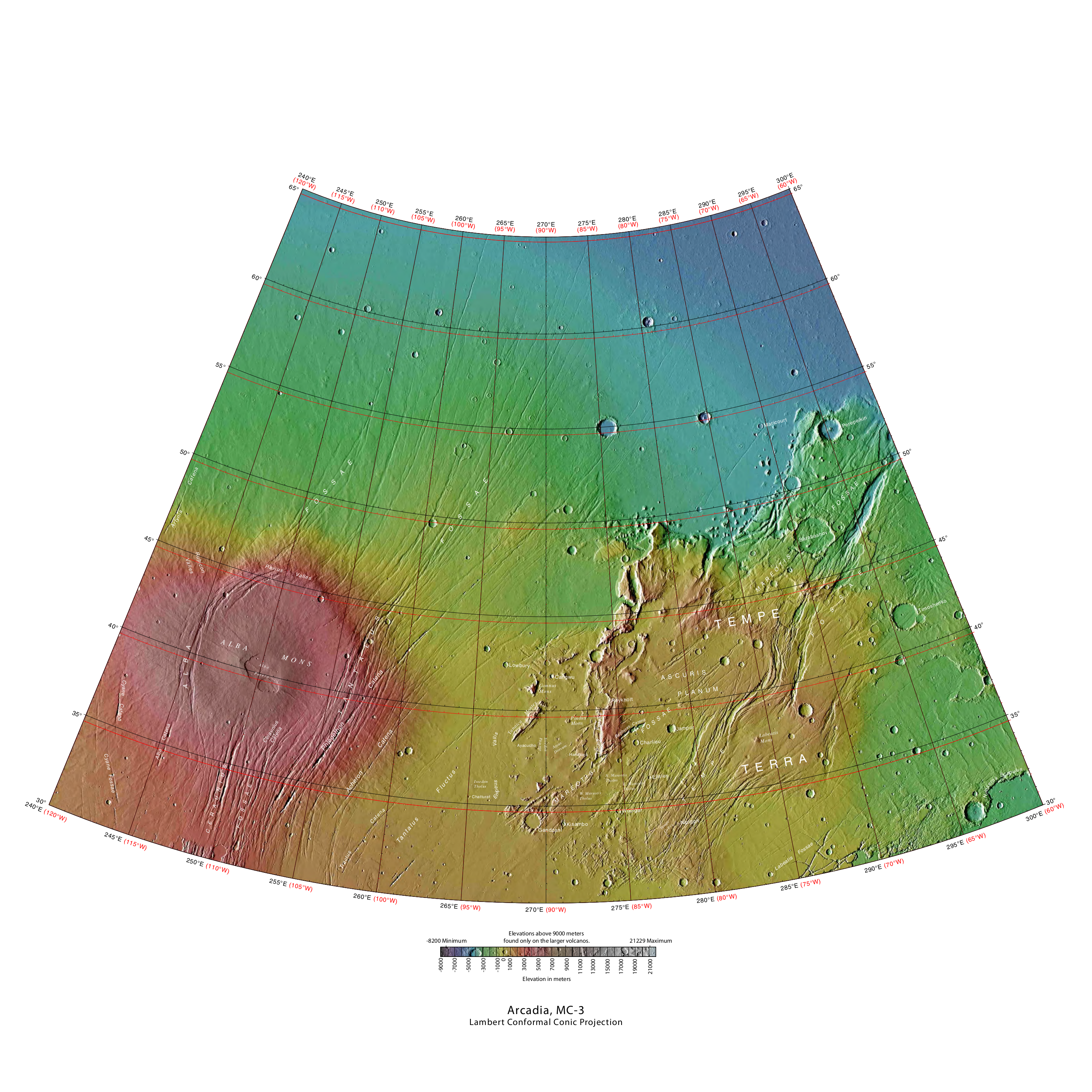 MOLA Topographic Map of Arcadia Quadrangle (MC-3) on the planet Mars. NOTE: Converted the original PDF file to a PNG File (via GIMP v2.8.4 program) - and uploaded to Wikimedia Commons.